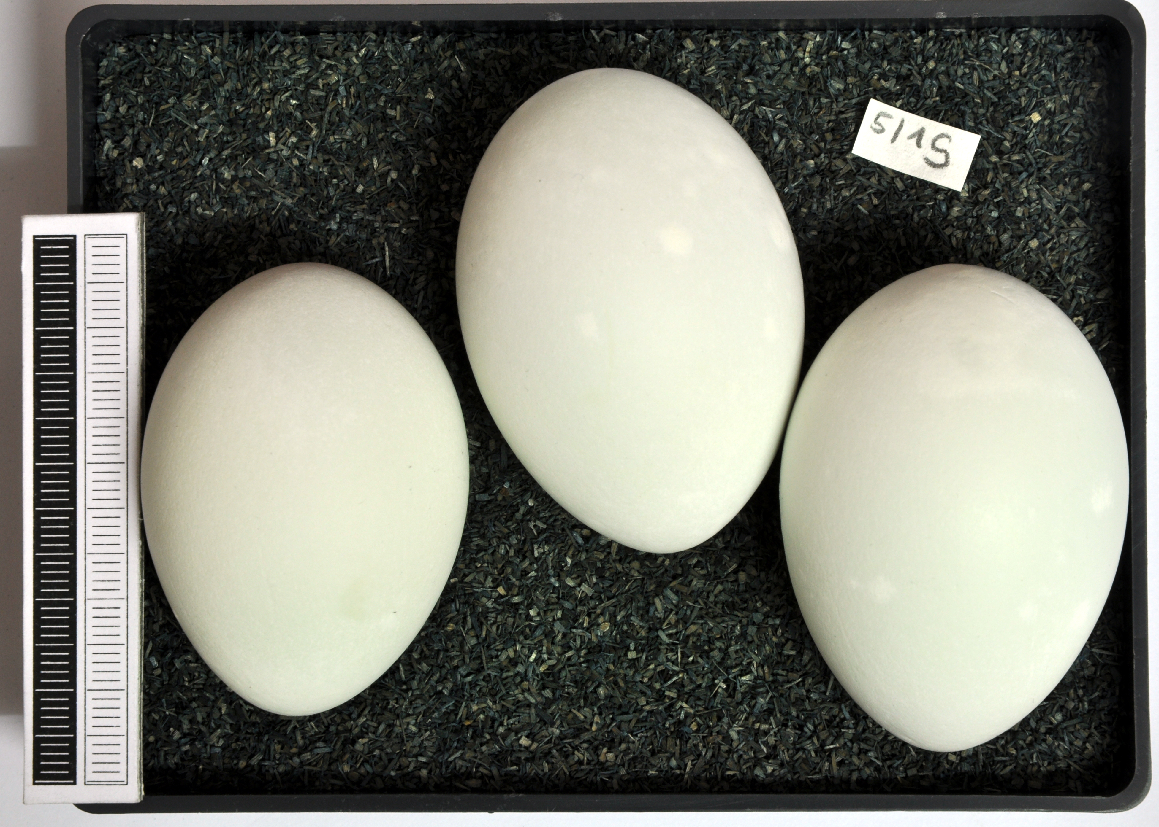 Great crested grebe Podiceps cristatus, egg, Coll. Museum Wiesbaden, Origin: Lac de Lindre, France, 28.05.1972, leg. W. Abelmann